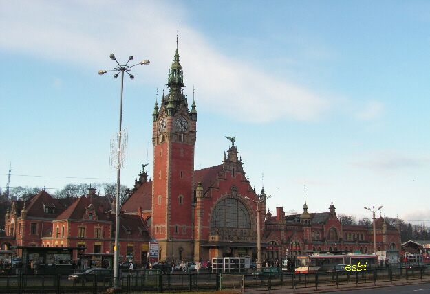 Author: esbi